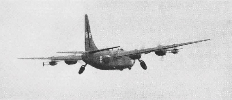 A U.S. Navy Consolidated PB4Y-2 Privateer from patrol squadron VP-25 taking off with two Bat glide bombs attached, in 1950.